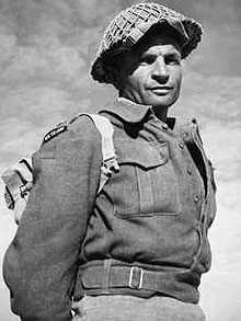 Photograph of New Zealand World War II Victoria Cross recipient Charles Hazlitt Upham.